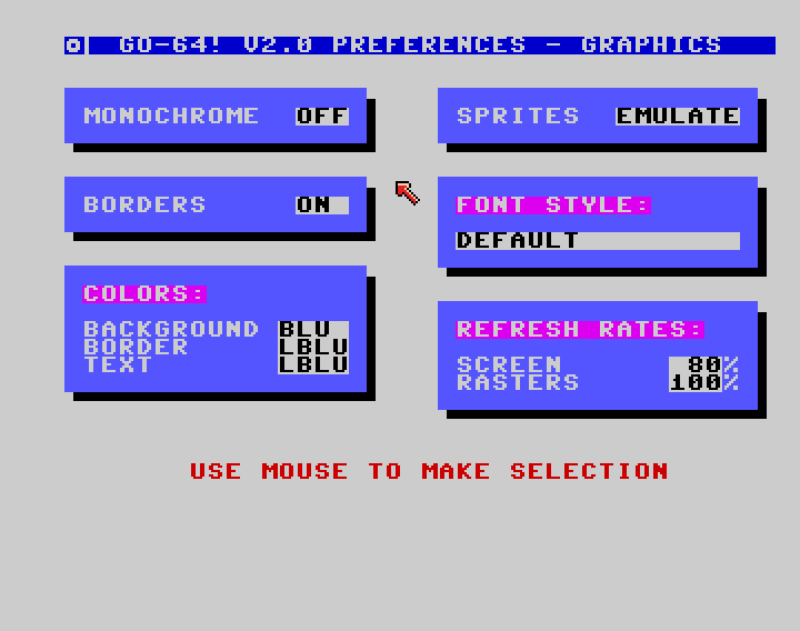 The Graphics preferences for the Go-64! version 2.0 software.